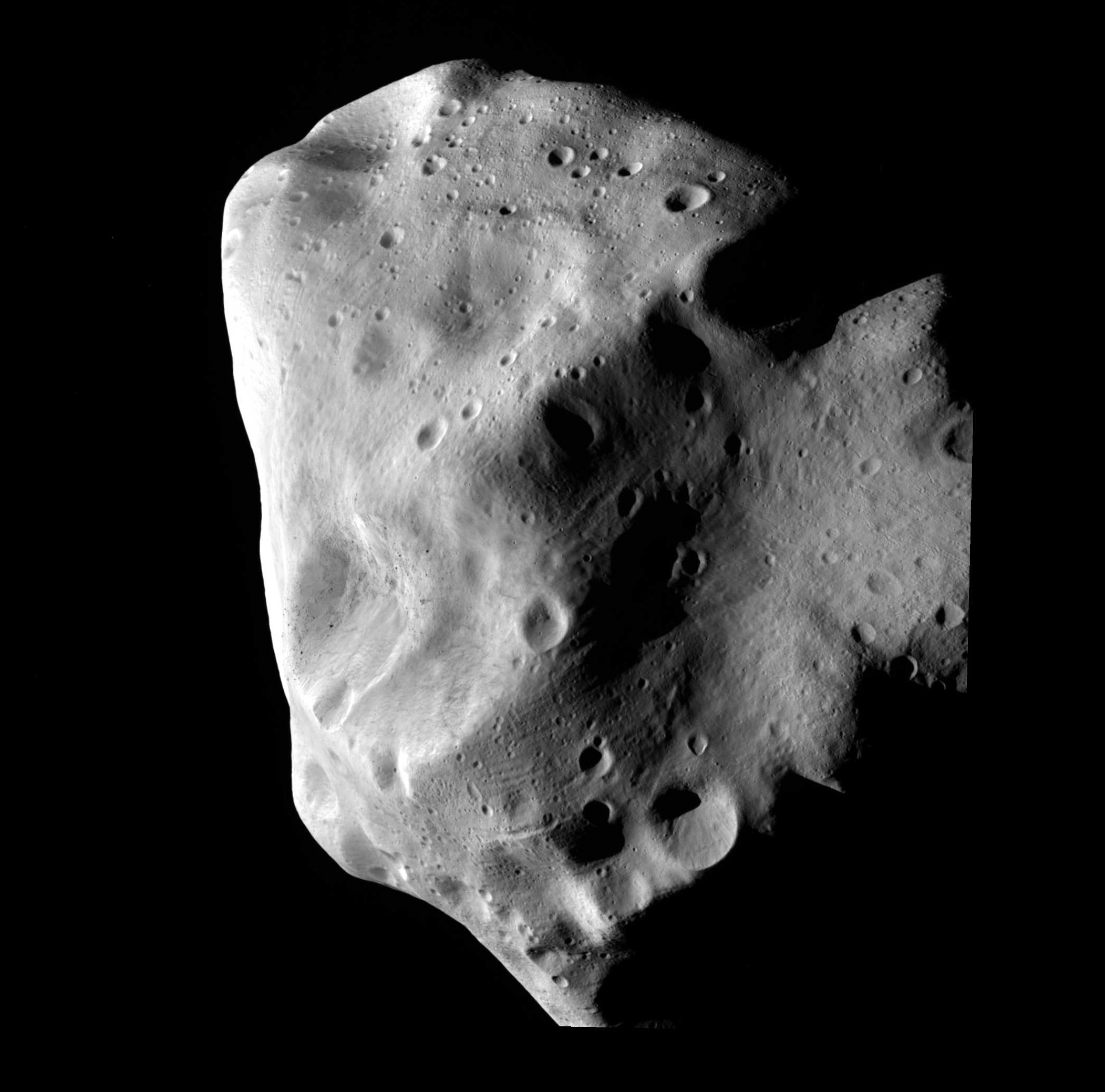 Asteroid 21 Lutetia has been revealed as a battered world of many craters. ESA's Rosetta mission has returned the first close-up images of the asteroid showing it is most probably a primitive survivor from the violent birth of the Solar System.